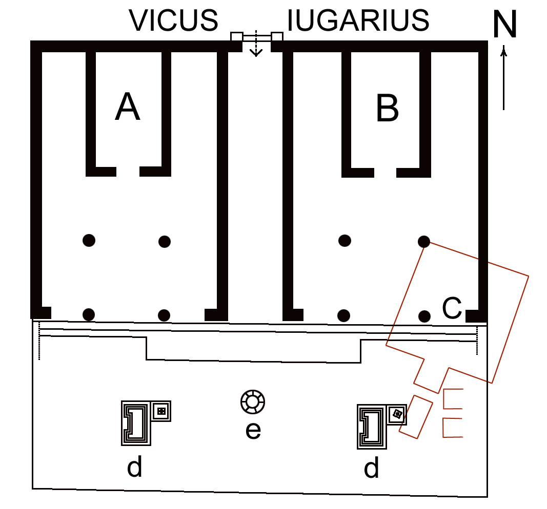 Map of the sacred area of Sant'Omobono, in Rome. A is Fortuna temple, B is Matris Matutae Temple, C is the Arcaic Temple (in red), d are the altars, e is the circular donarius